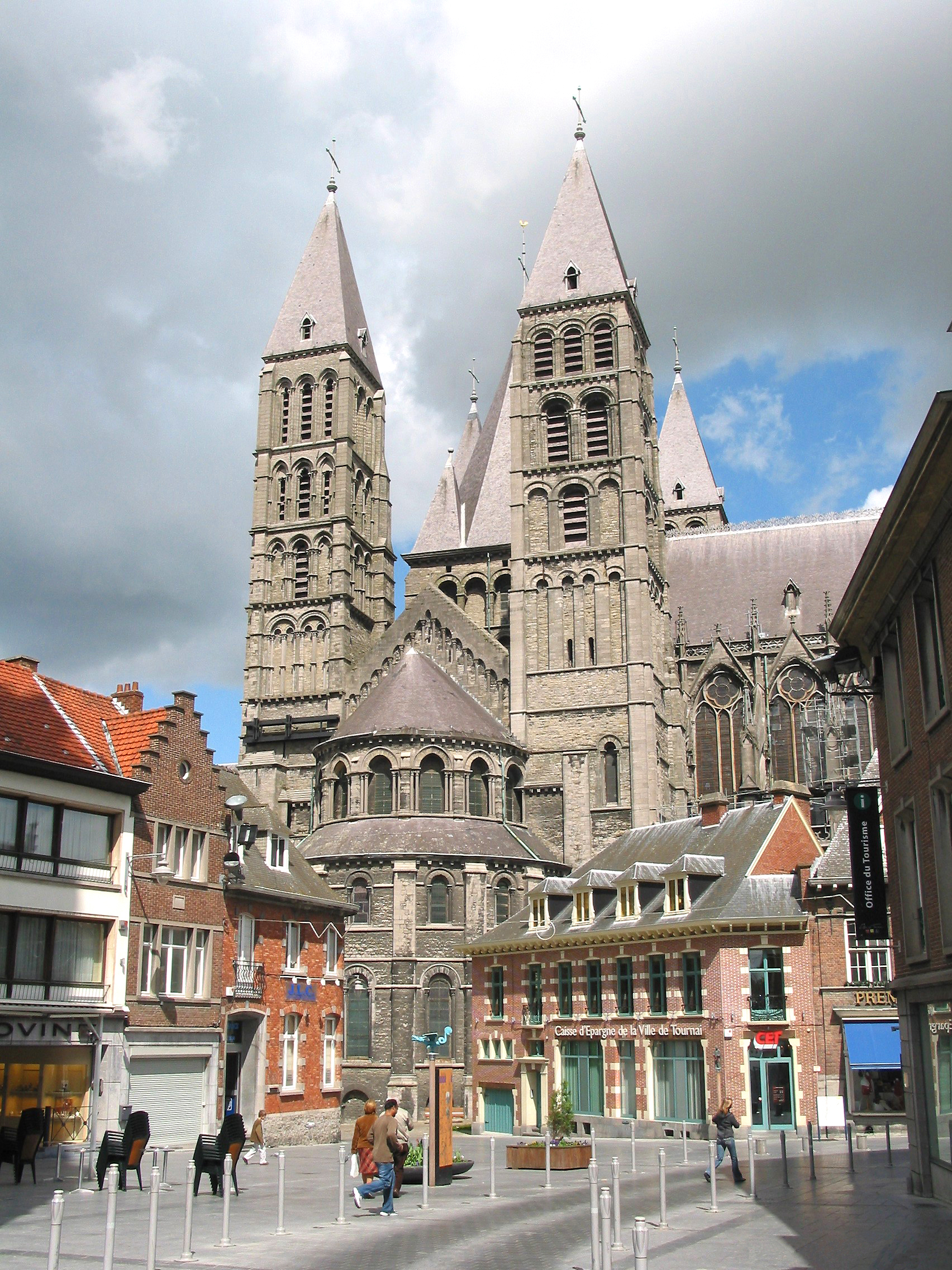 Tournai (Belgium), the Notre-Dame (Our Lady) cathedral (XII/XIIIth centuries).